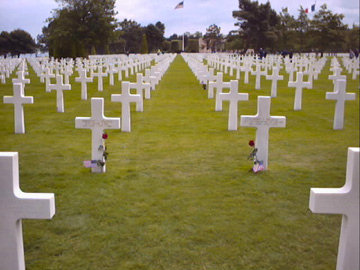 Normandy cemetery